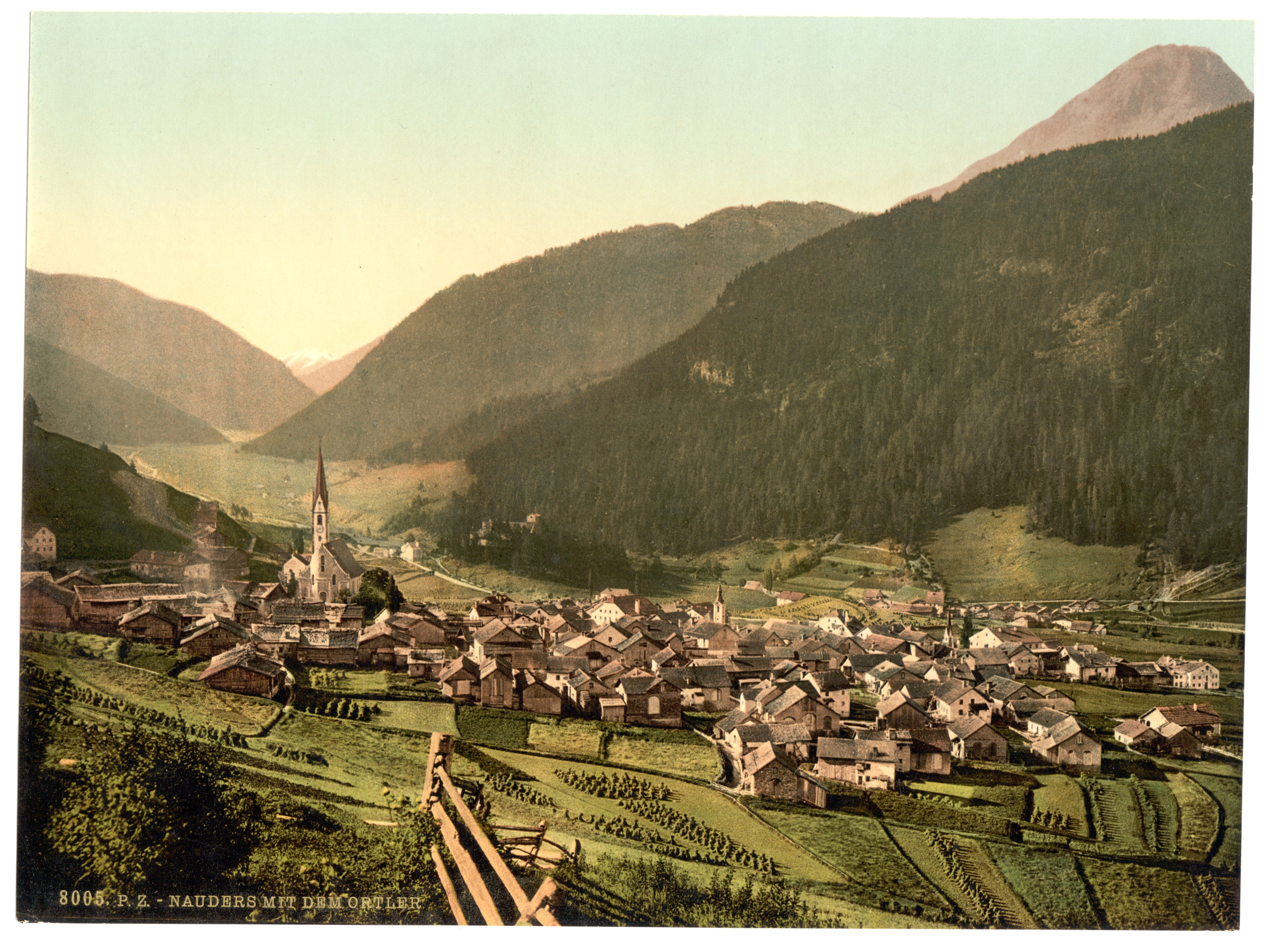 Forms part of: Views of the Austro-Hungarian Empire in the Photochrom print collection.; Title from the Detroit Publishing Co., Catalogue J-foreign section, Detroit, Mich. : Detroit Publishing Company, 1905.; Print no. "8005".